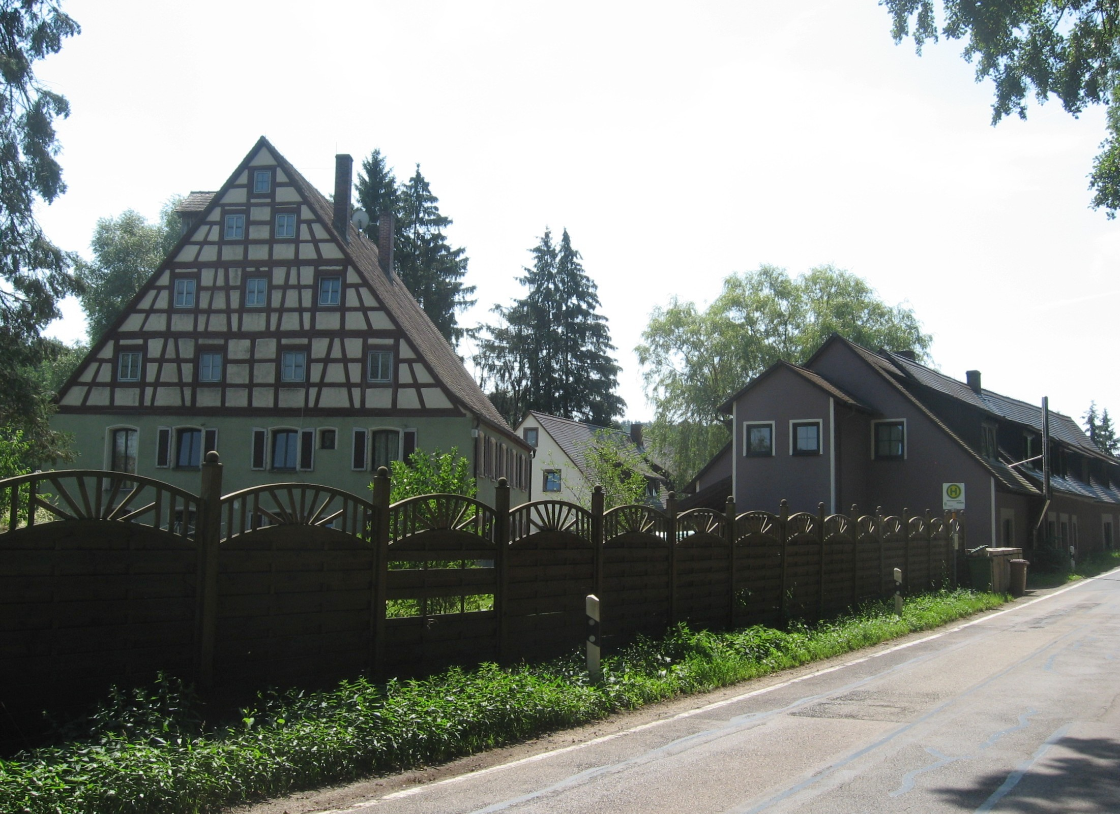 Böschleinsmühle near Pleinfeld, Bavaria, Germany